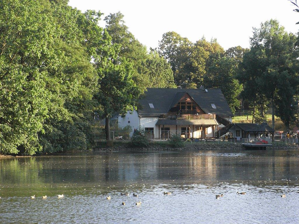 Restaurant at the pond in Schönfels